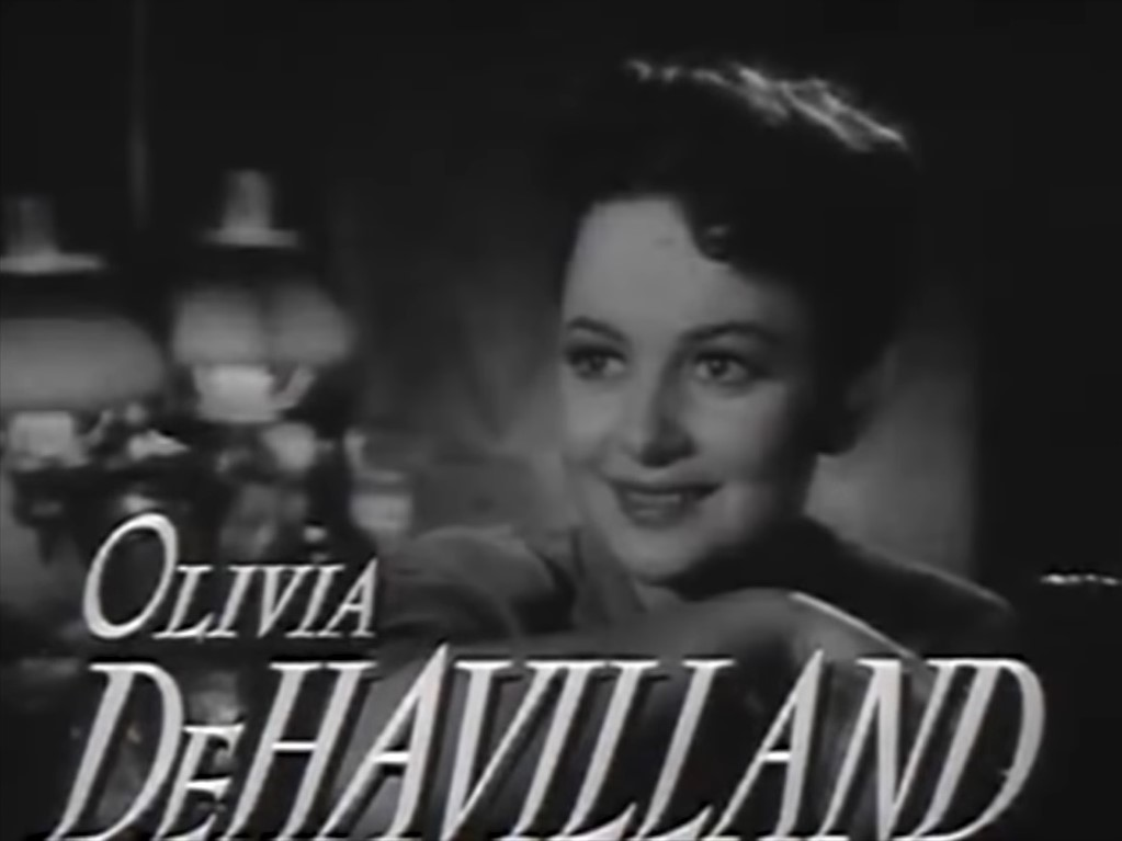 Cropped screenshot of Olivia de Havilland from the trailer for the film In This Our Life